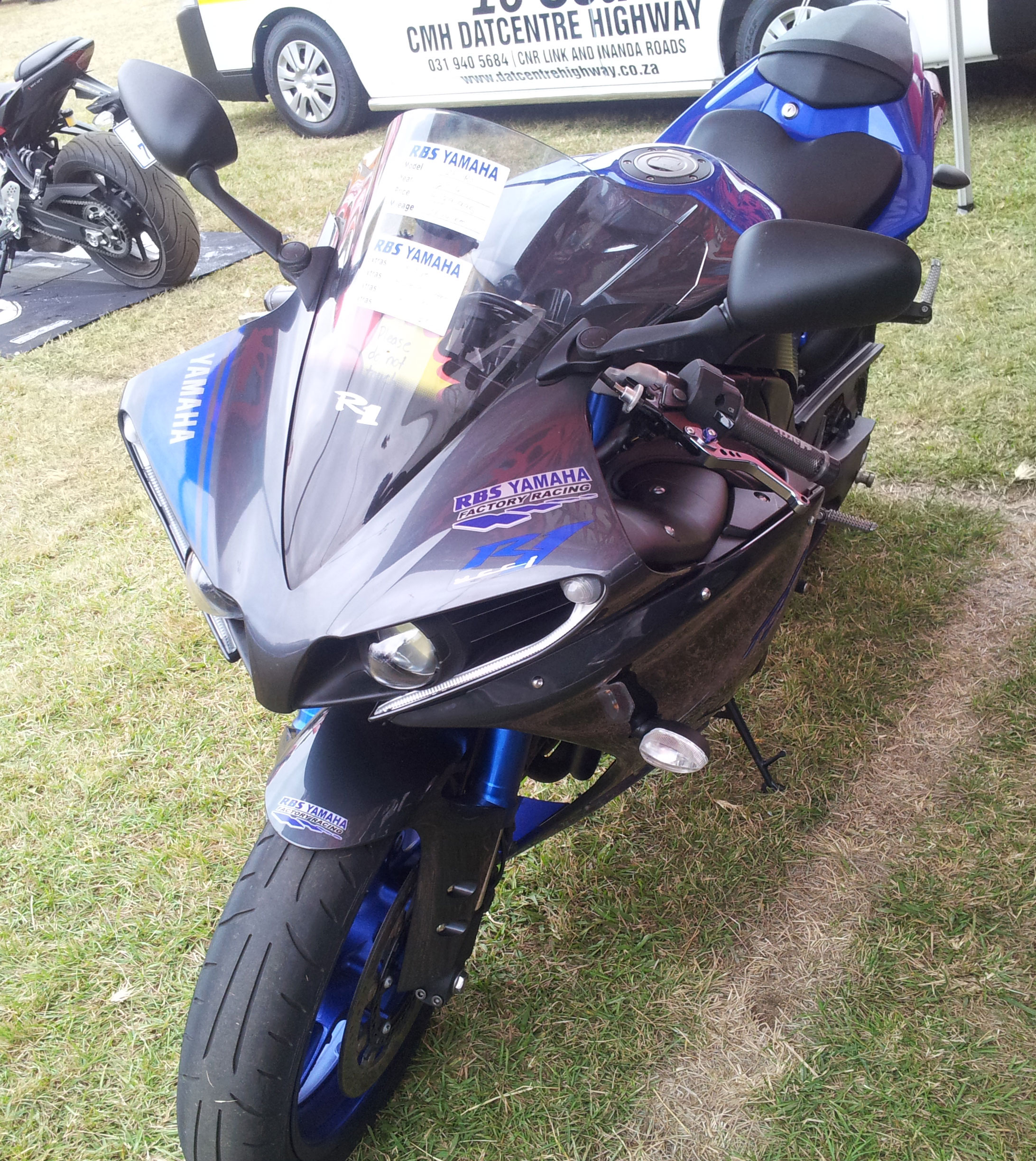 A photography i took of an R1 at a motor show in South Africa